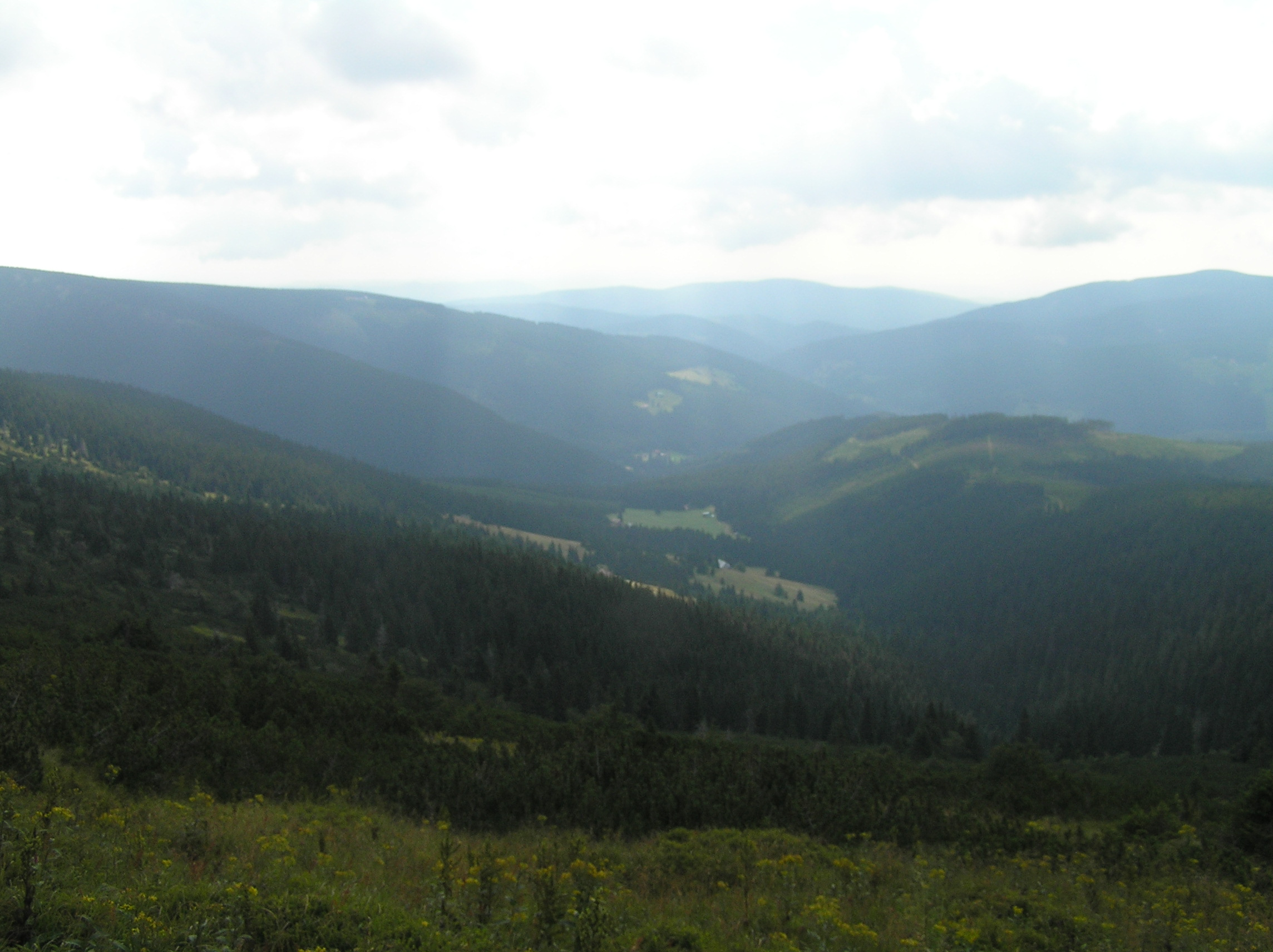 Modrý důl, Krkonoše, Czech Republic